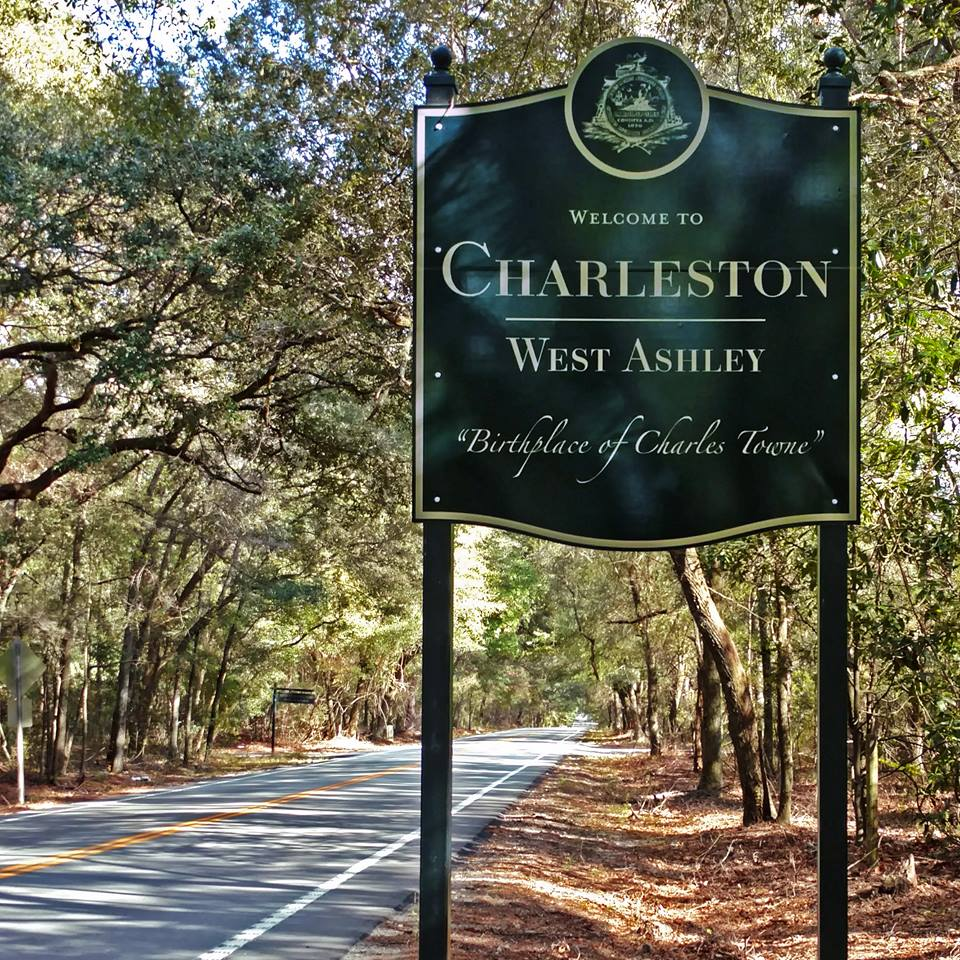 New City of Charleston, South Carolina welcome signs at the gateways to West Ashley, the Birthplace of Charles Towne